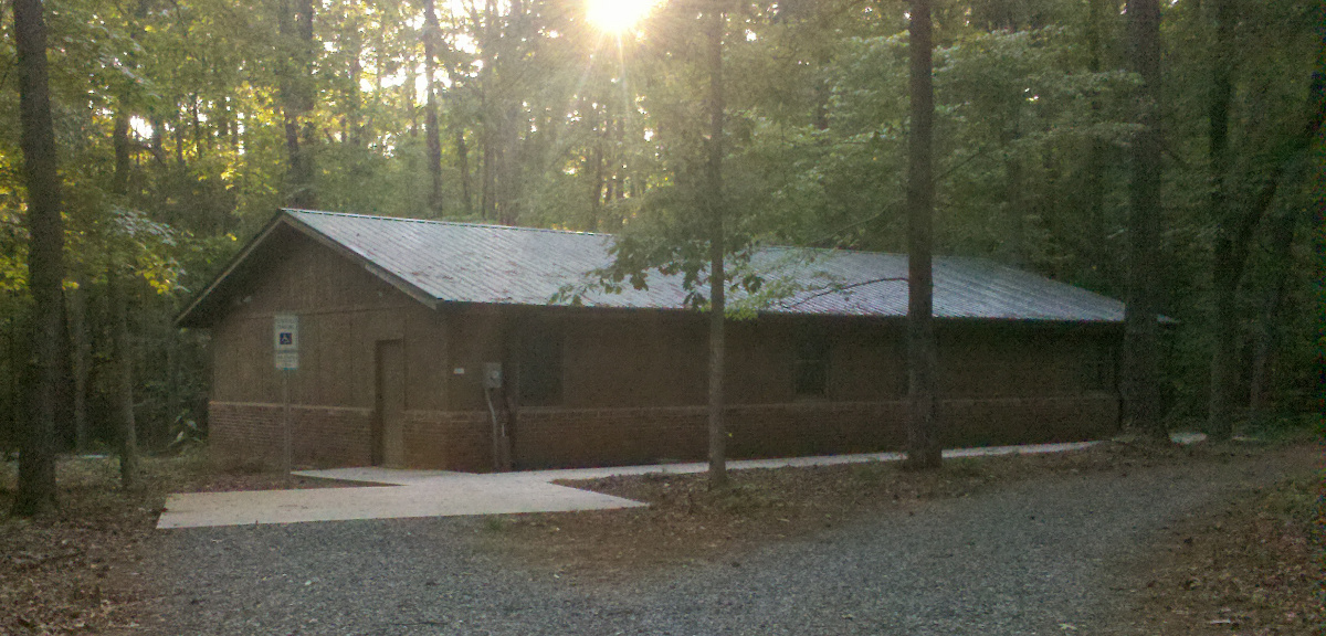 Northwest Park, Chatham County NC, USA, May 2013. Youth Room.